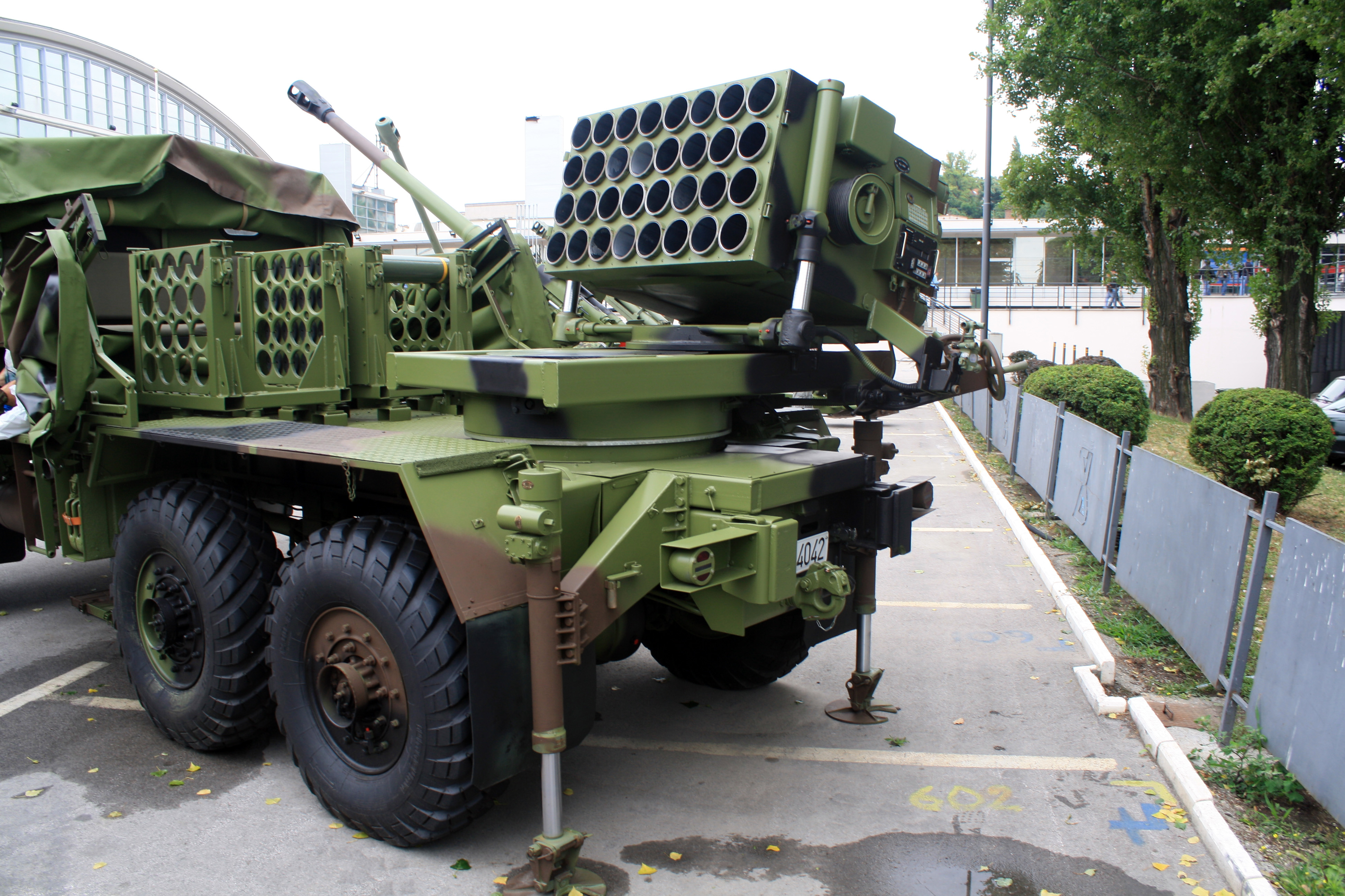 M94 Plamen S 128mm multiple rocket launcher of Serbian Army on display at "Partner 2011" military fair.